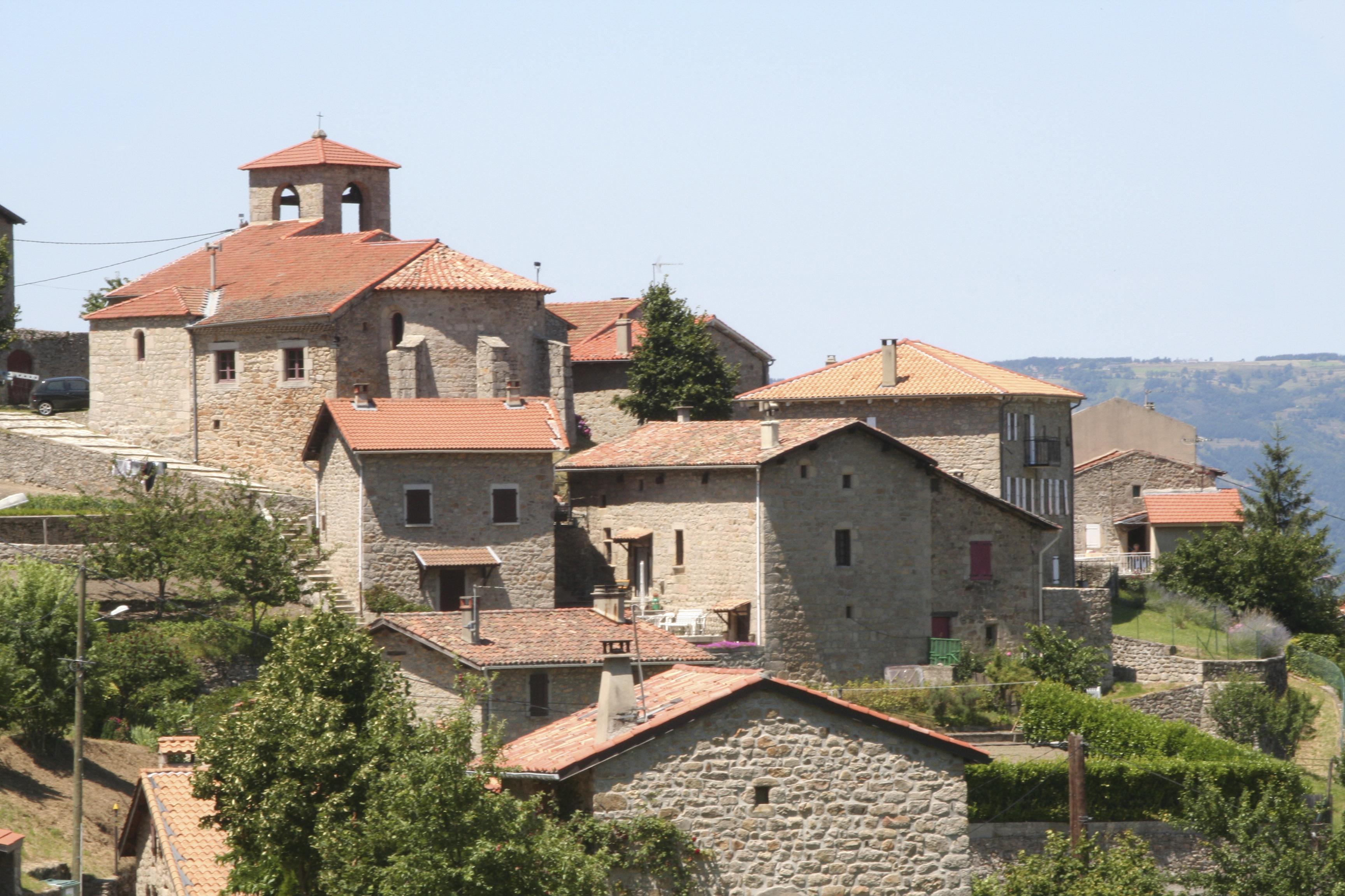 The Village of Saint-Basile